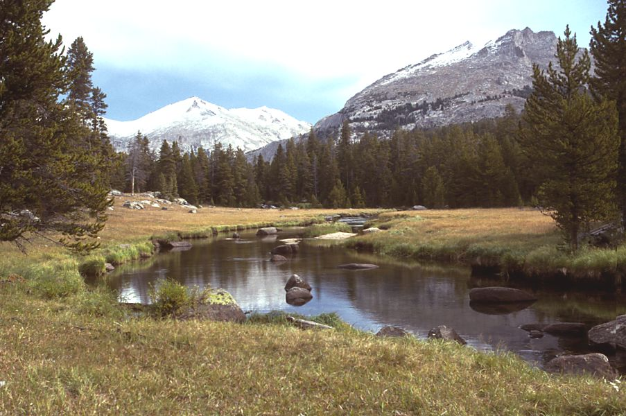 Big Sandy Creek, Wyoming, looking east into the Wind River Range